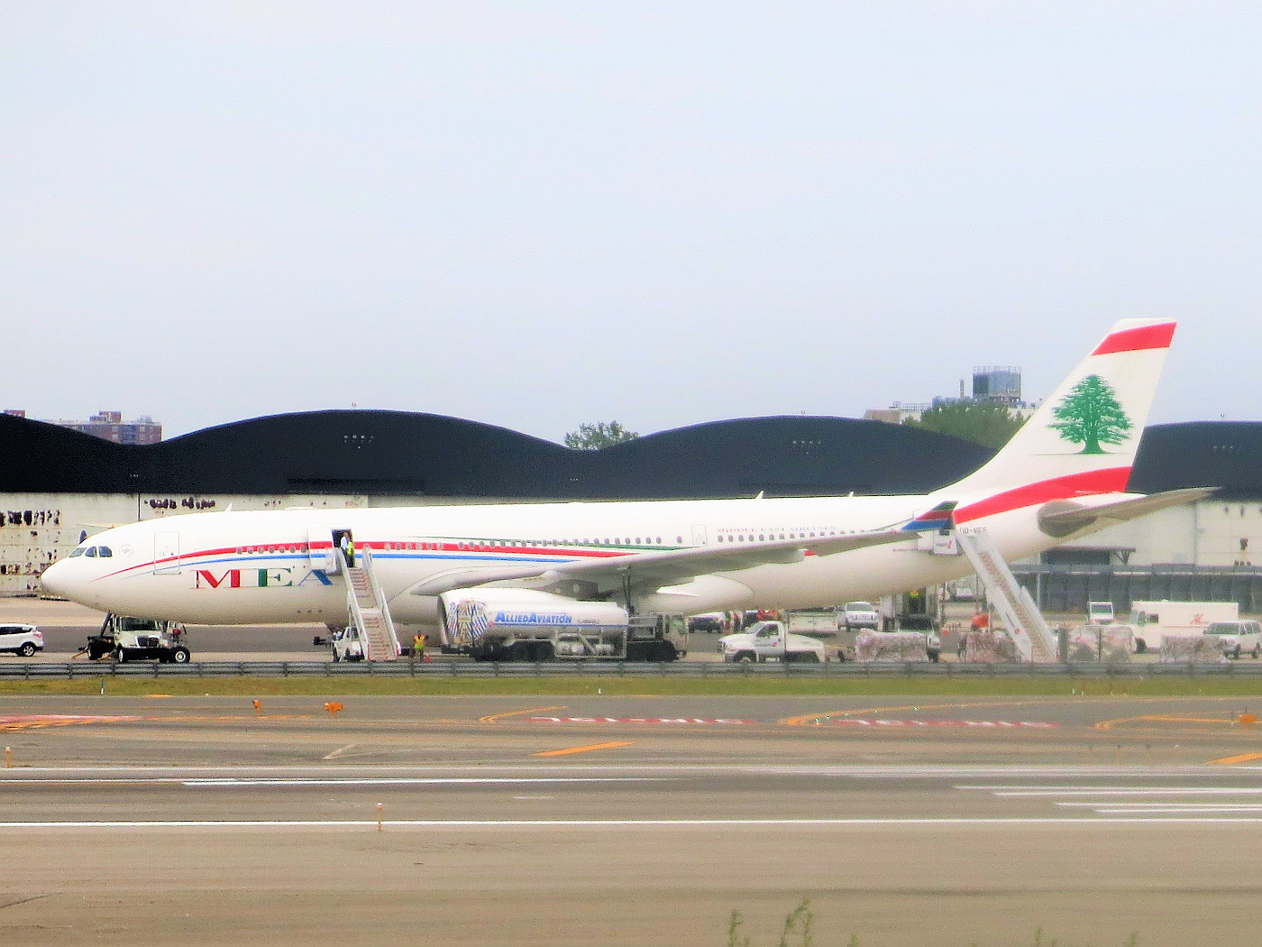 A Middle East Airlines Airbus A330-200, operating under the callsign Cedar Jet 1, is parked in Cargo Area D at John F. Kennedy International Airport, boarding the delegation from the 2017 United Nations General Assembly for the return trip back to Beirut.